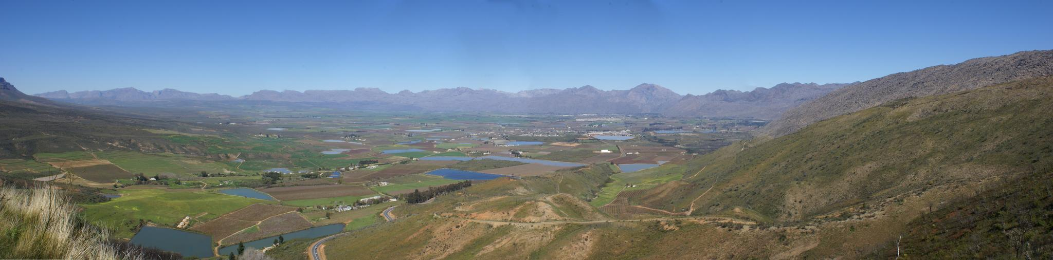 Took a ride today over Bain's Kloof Pass and Mitchell's Pass to Ceres, and then along a road I had not travelled before - over Gydo Pass and through some of the Cederberg Mountains to Citrusdal (some quite long gravel road stretches here). From Citrusdal I travelled over Piekenierkloof Pass (and finally photographed Thomas Bain's cottage that he built when building the mountain pass) and down the N7 back to Cape Town.